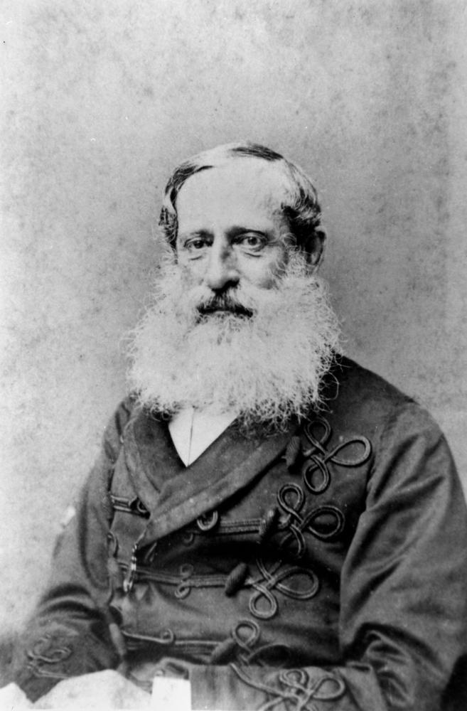 Samuel Wensley Blackall (1809–1871), Governor of Queensland from 1868 – 1871